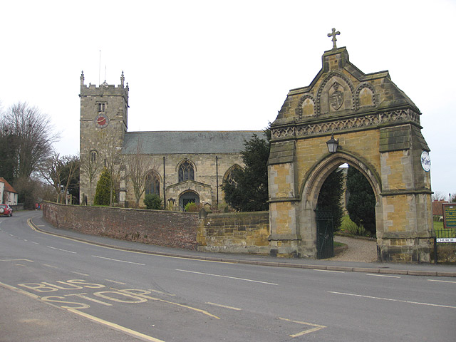 All Saints Church and 'Admiral's Arch', Hunmanby The arch was built at the entrance in memory of Admiral Mitford, a descendant of the Osbaldestons and the last true Lord of Hunmanby Manor to live at Hunmanby Hall. The street light was placed above the arch to commemorate Queen Victoria's Golden Jubilee in 1887.